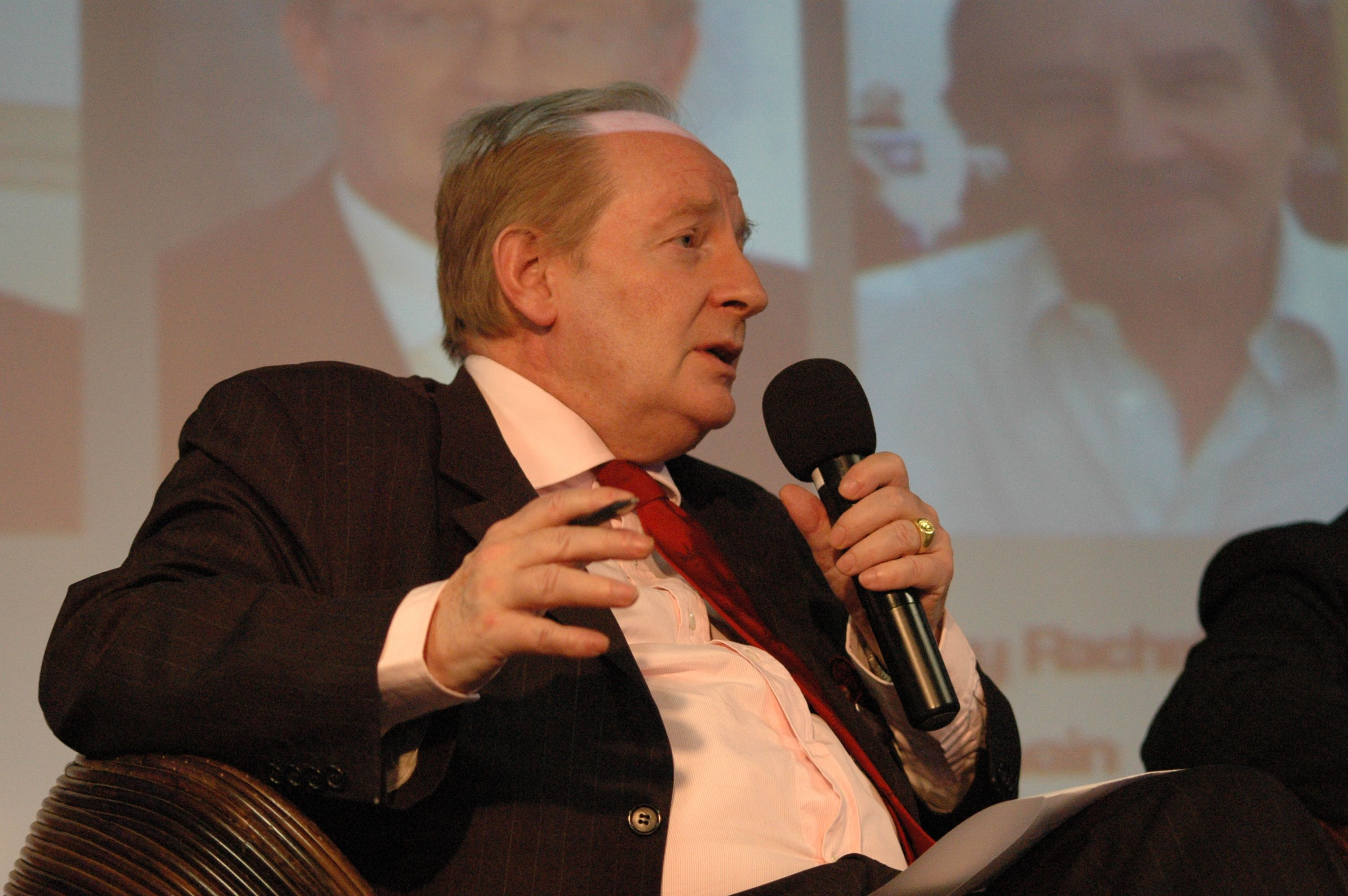 Yvan Blot at "La France en danger" meeting on Saturday, March 10th 2012, at Espace Charenton, in Paris, France.